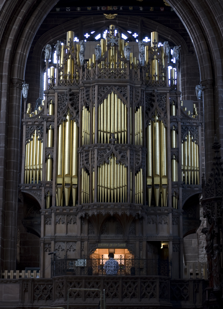 Chester Cathedral